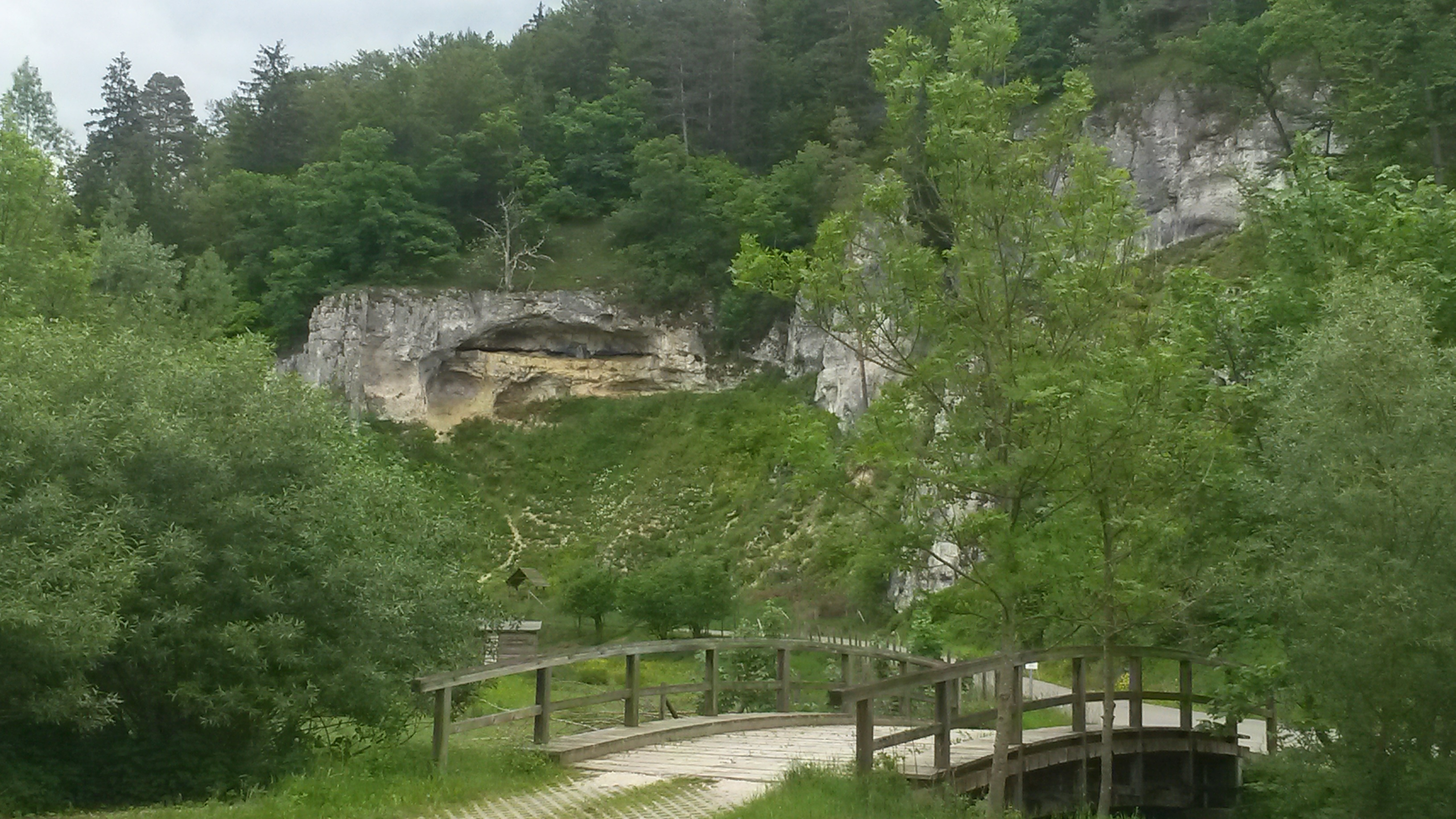 A hole in Unterschmeien. It is sometimes called "Bananenhöhle" ("banana hole")